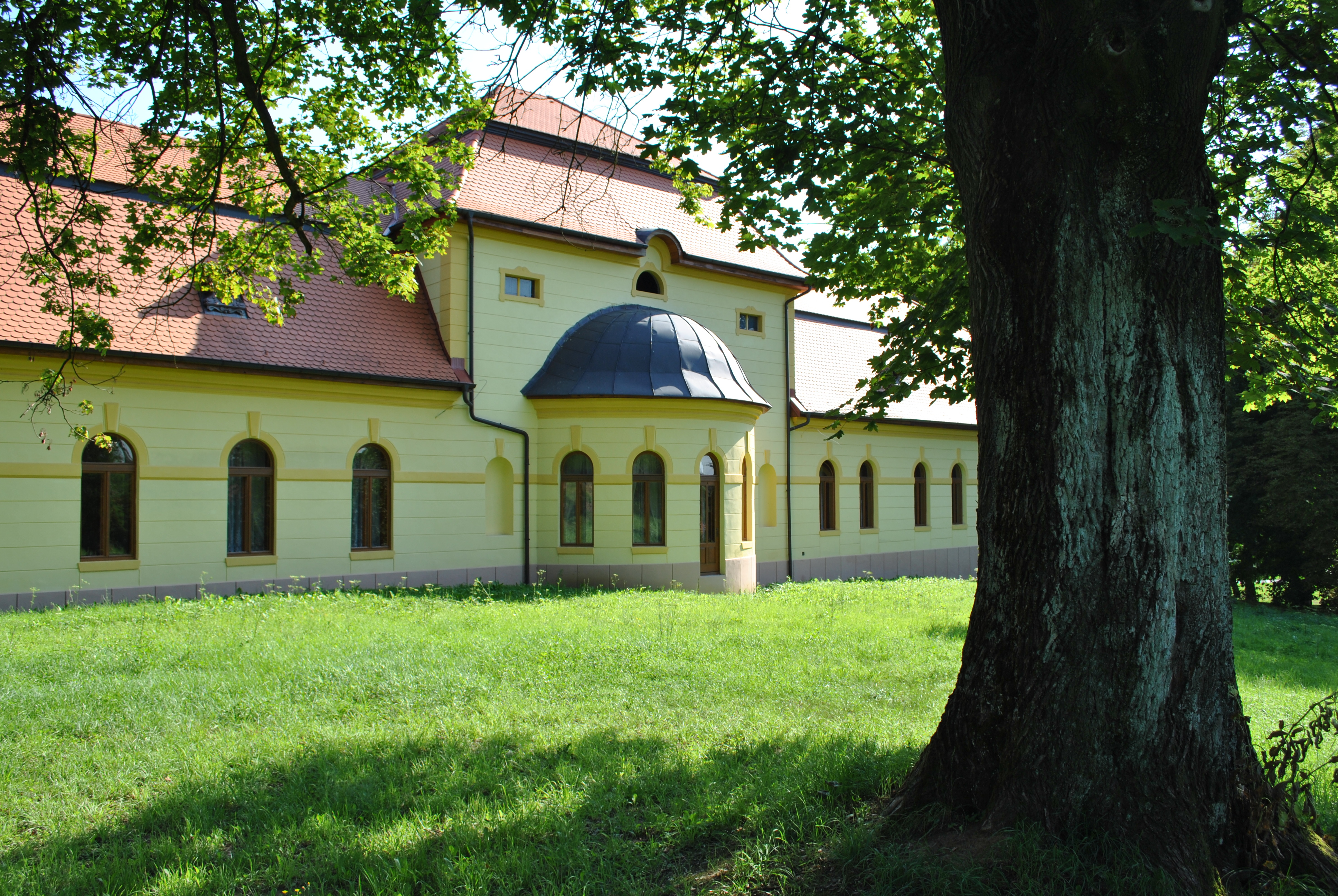 Bardoňovo, manor